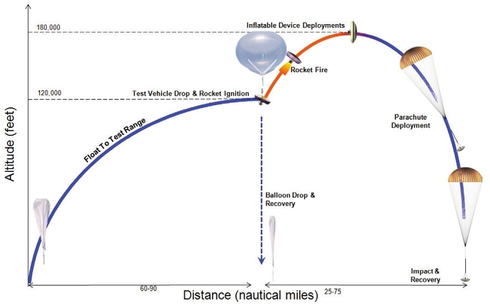 Proposed fight profle for four high-altitude LDSD tests in Earth’s stratosphere